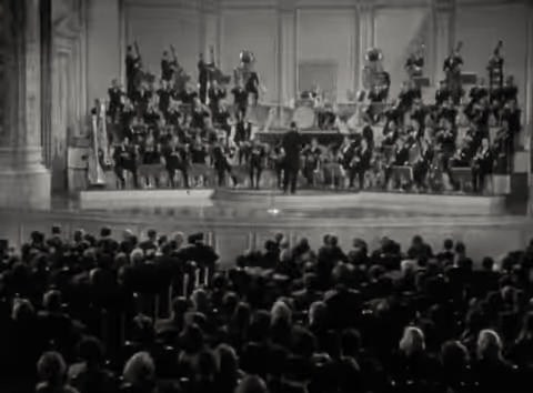 Alexander's Ragtime Band - trailer (cropped screenshot)